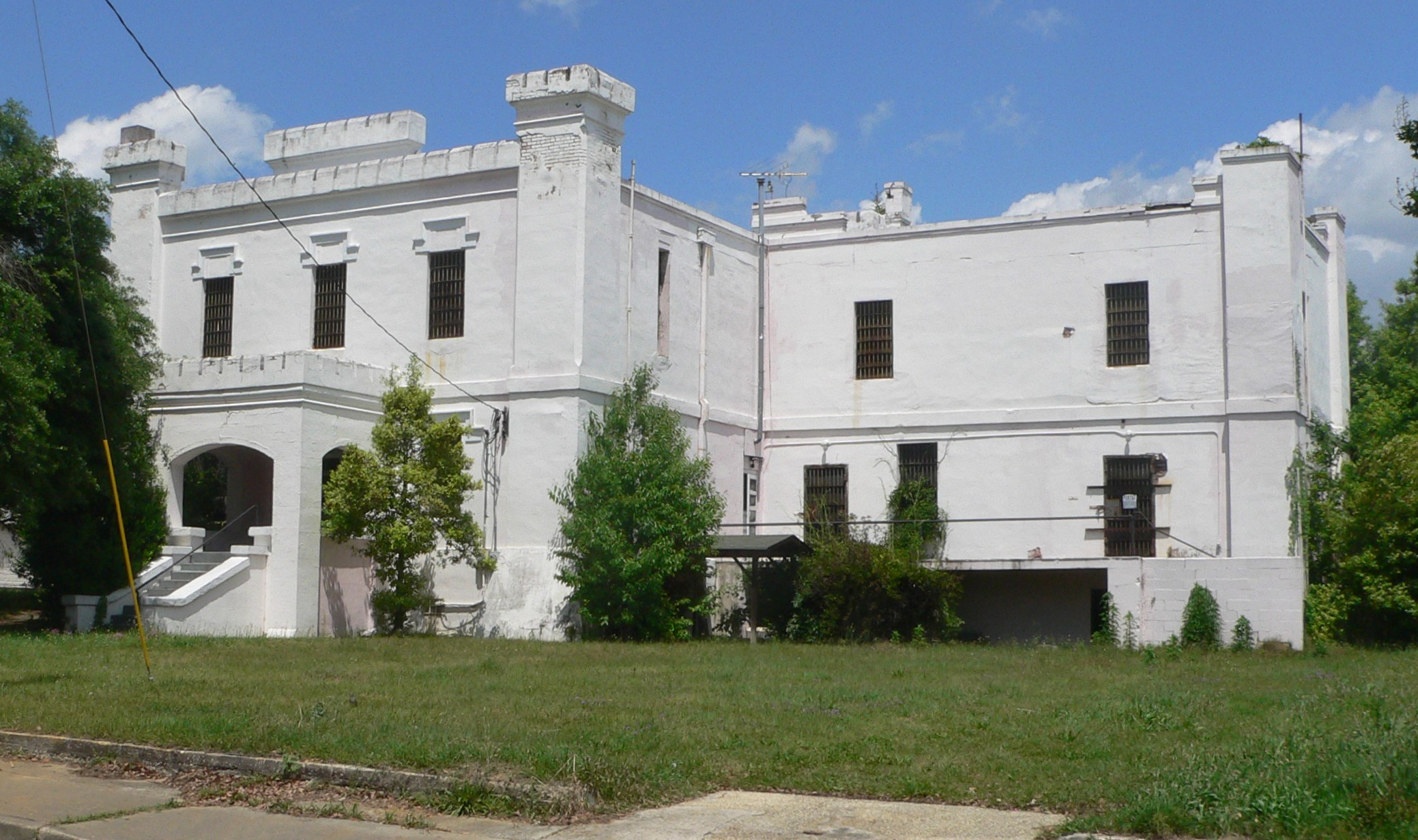 Old Orangeburg County jail at southeast corner of St. John and Meeting Streets in Orangeburg, South Carolina; seen from the southwest, from Meeting.